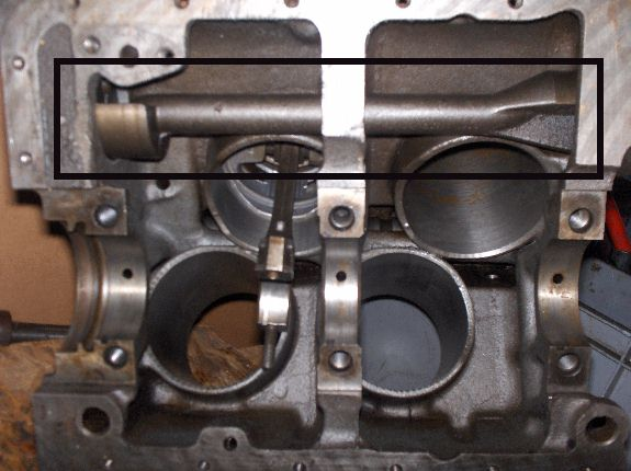 Balance shaft in Ford Taunus V4 engine. MH 20:44, 13 July 2006 (UTC)